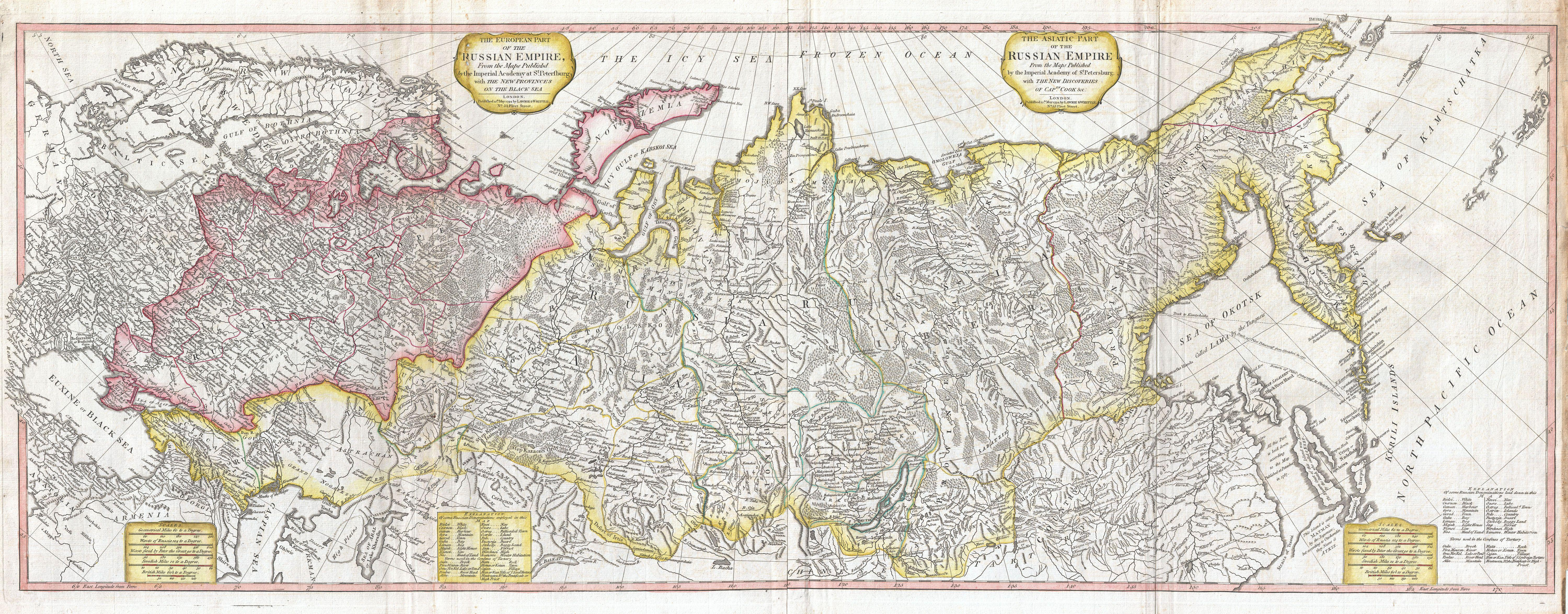 An rare and magnificently proportioned 1794 wall map of the Russian Empire by Laurie and Whittle. Extends from the North Sea and the Black Sea eastward as far as Siberia and the Behring Strait. Extends south to China and the Aral Sea and north to include the island of Nova Zembla and the Arctic. Color coded according to region with Russia in Europe toned in reds and pinks, and Russia in Asia in yellows and greens. This map is most interesting in its extreme eastern portions, which, when this map was drawn, had only recently been explored. The explorations of Vitus Behring are very much in evidence with regard to the form of Kamtschatka and the extreme northeast of Siberia. Shows variosu nautical routes from Okotskoi Ostrog, in Siberia, ccross the Sea of Okotsk to Kamtschatka and the Kuril Islands. Sakhalin is curiously divided into two separate islands. Hokkaido appears as Matmay or Atkis. Identifies Behring Island off the coast of Kamtschatka, where the great Arctic navigator ultimately met his doom. Published by Laurie and Whittle as plate no. 25 in the 1797 edition of Thomas Kitchin's General Atlas .